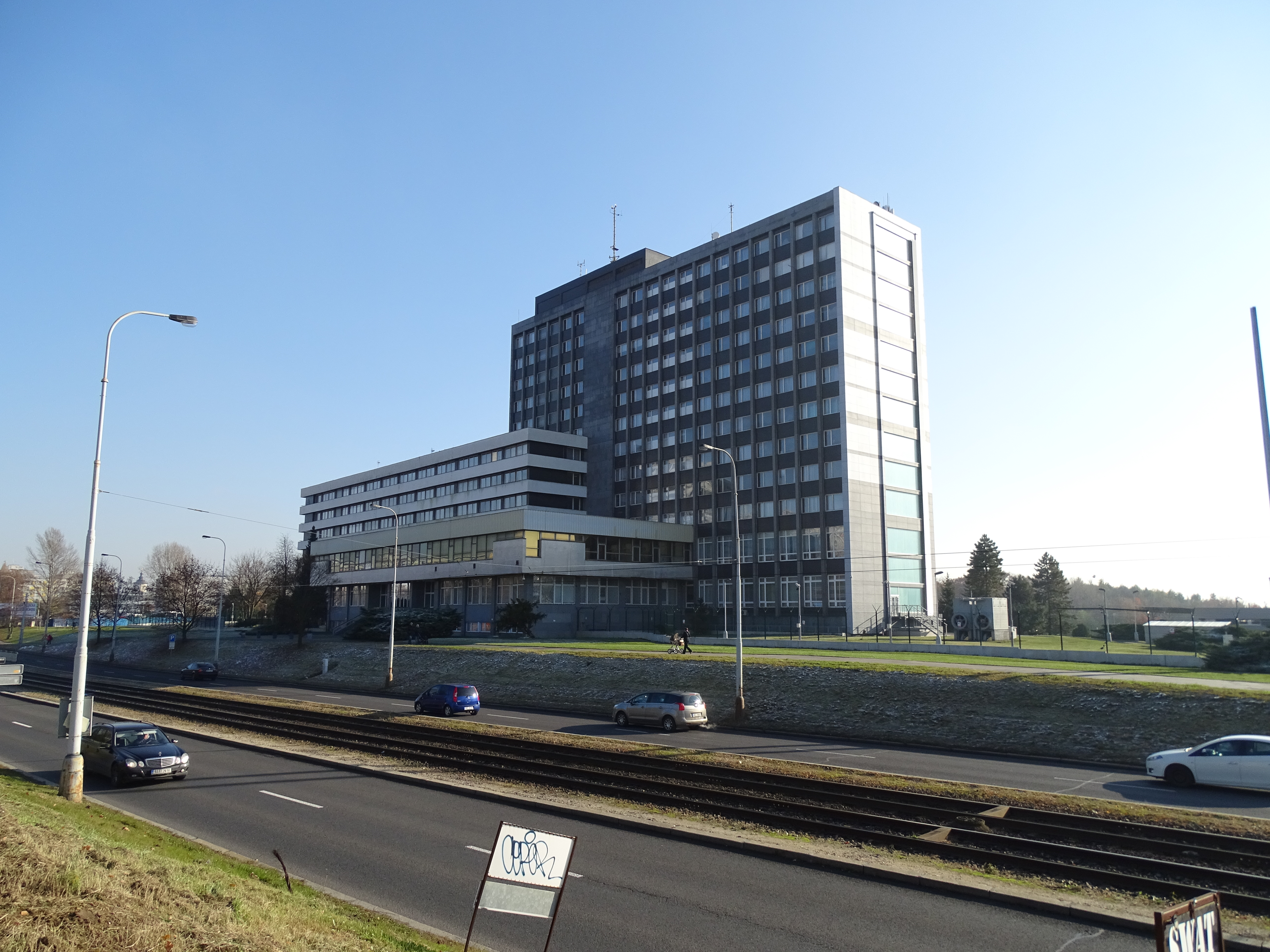 Prague-Kobylisy, Czechia. Střelničná 1673/10.